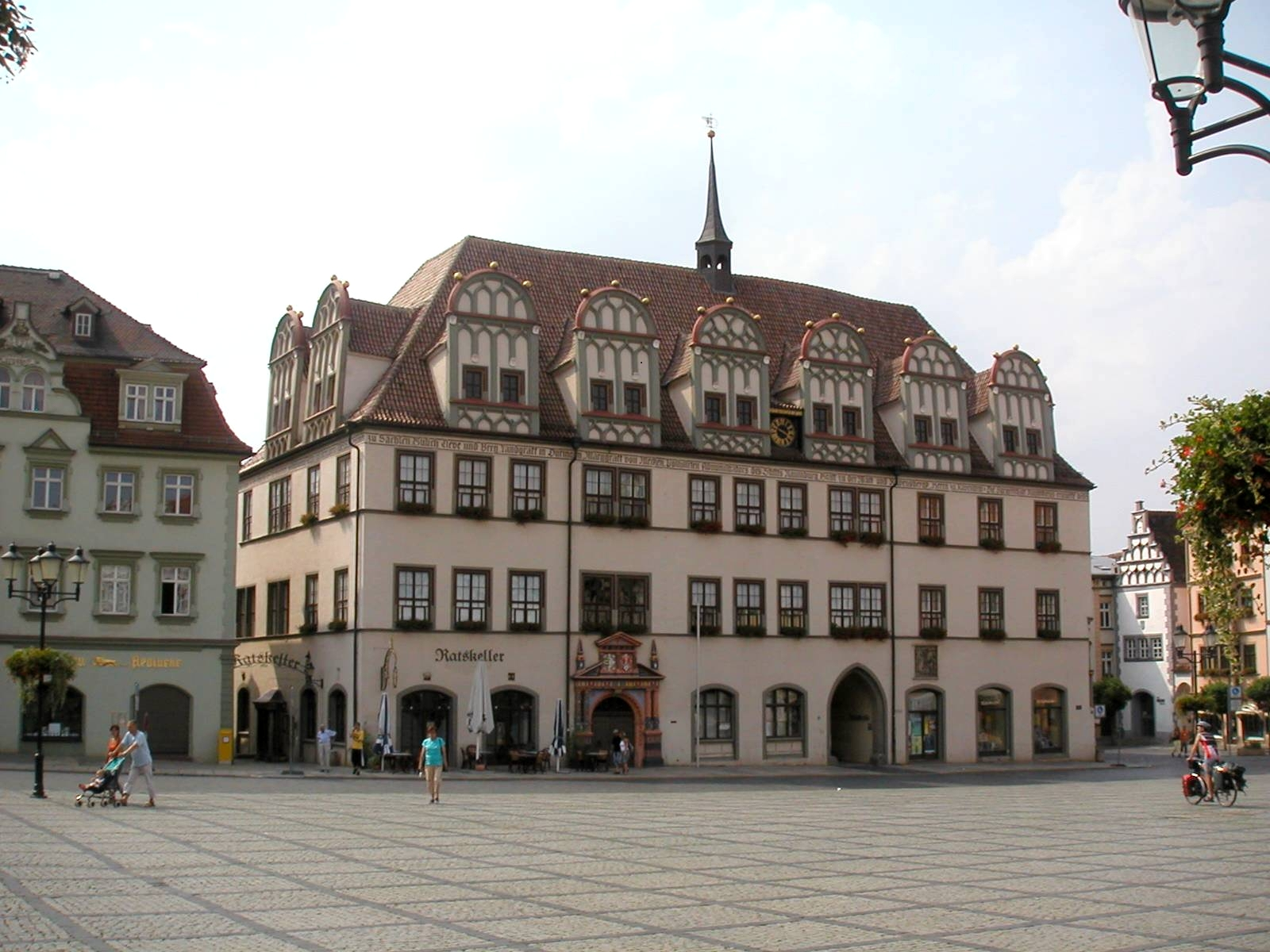 Town Hall of Naumburg (Saale)